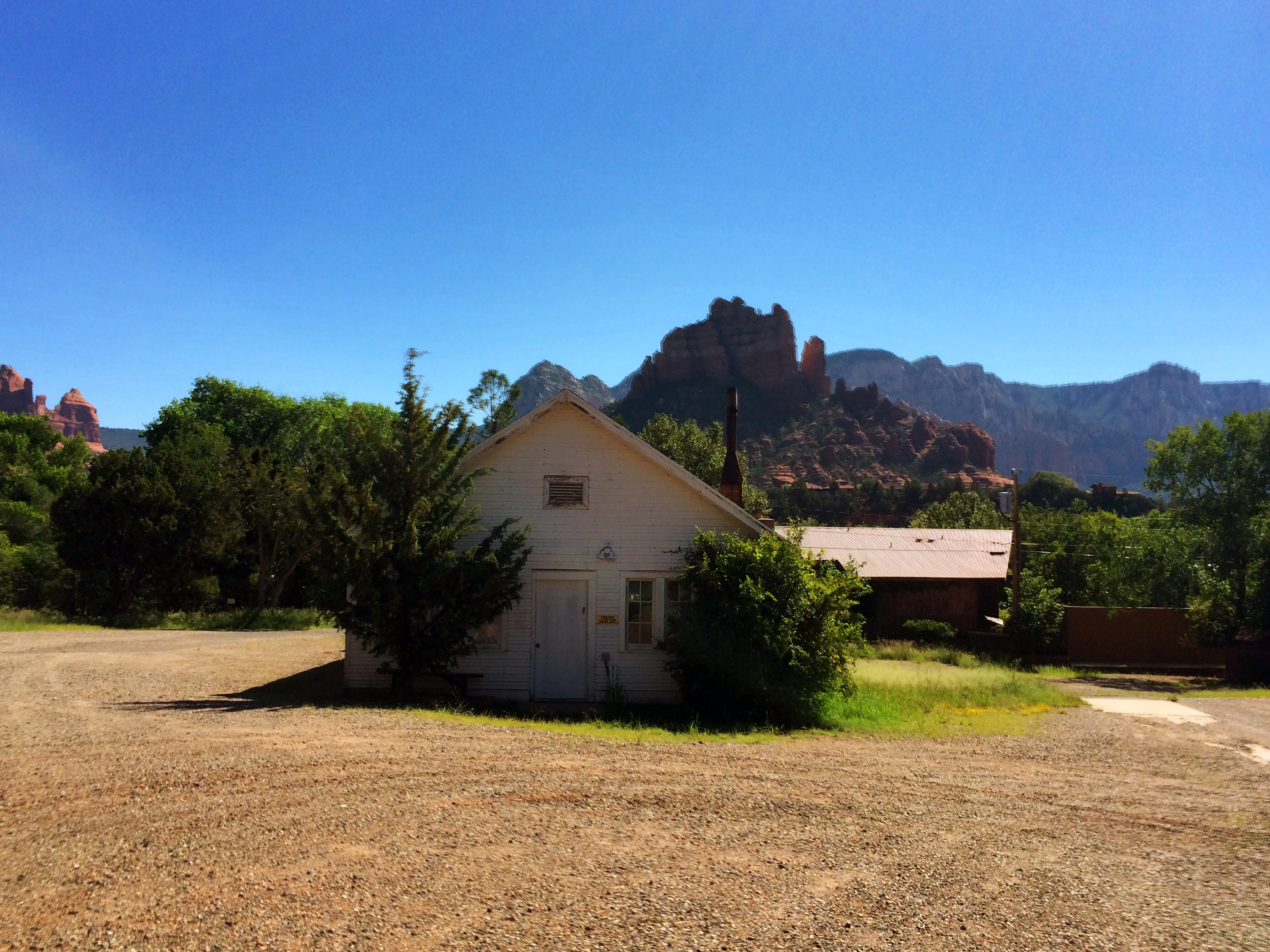 Sedona Ranger Station, Brewer Road, south of Hart Road Sedona